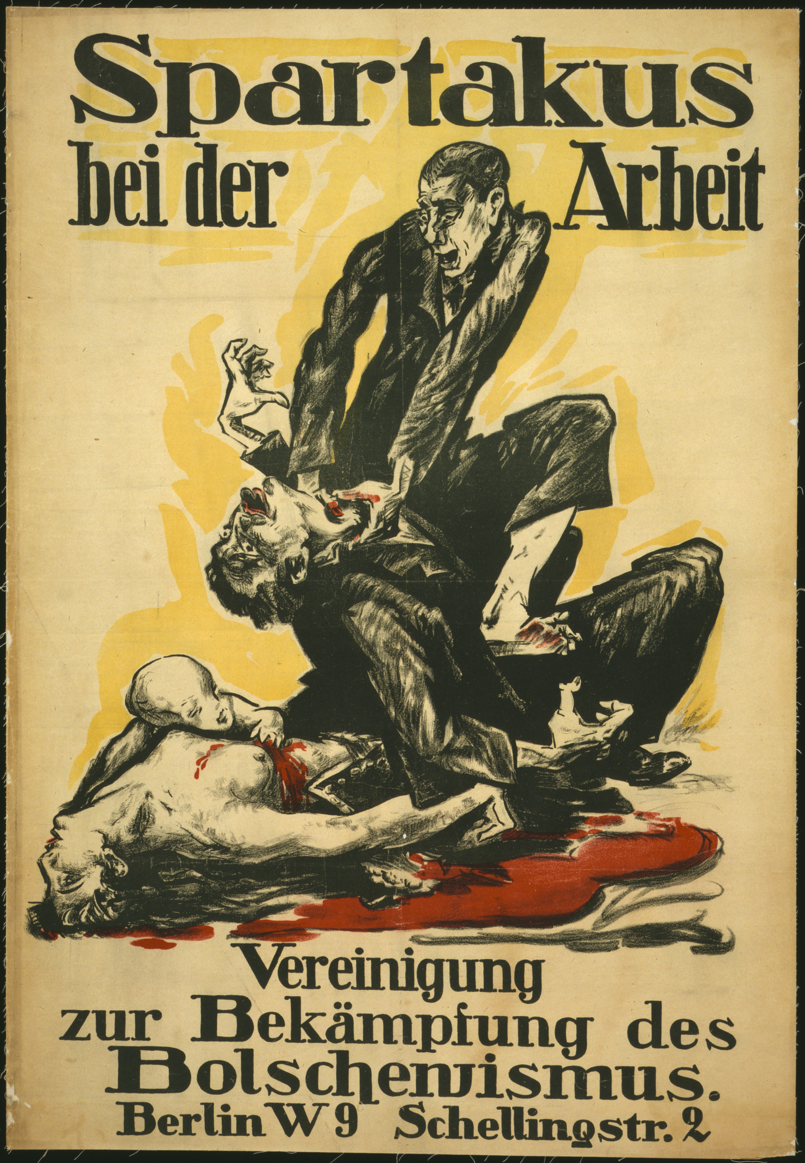 Title: Spartakus bei der Arbeit Abstract: Poster showing a man, representing the communist group Spartakus, strangling another man. A woman and child lie in a pool of blood beneath the victim. Text: Spartakus at work. Physical description: 1 print (poster) : lithograph, color ; 98 x 67 cm. Notes: Title from item.